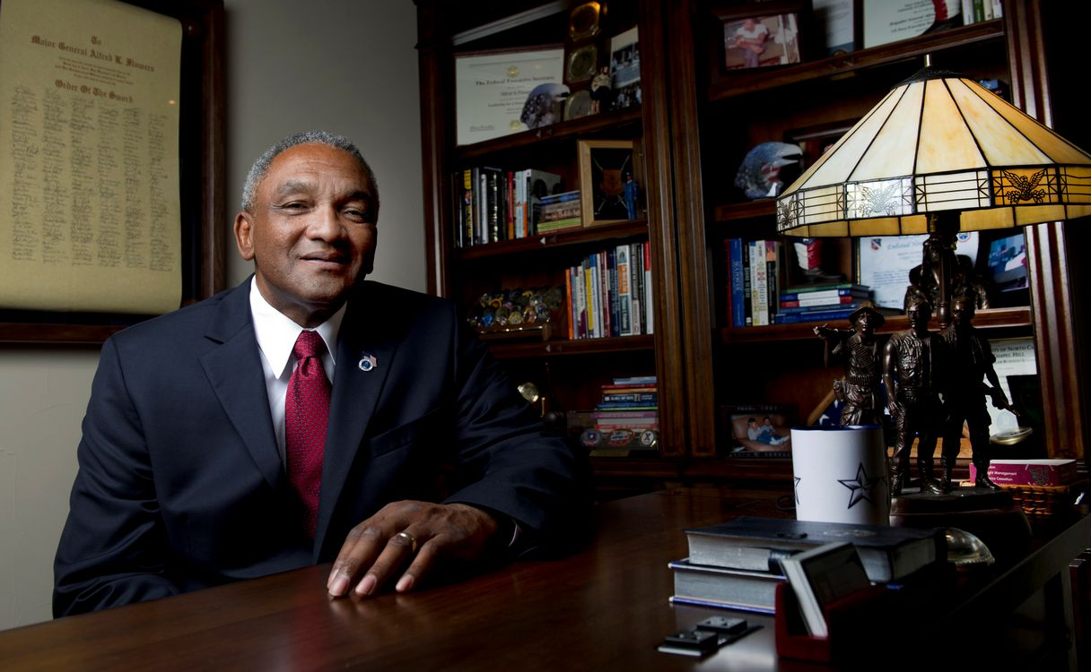 Maj Gen Alfred Flowers, U.S. Air Force retired; photo taken on 16 July 2012 in San Antonio, Texas during an interview for Pioneers